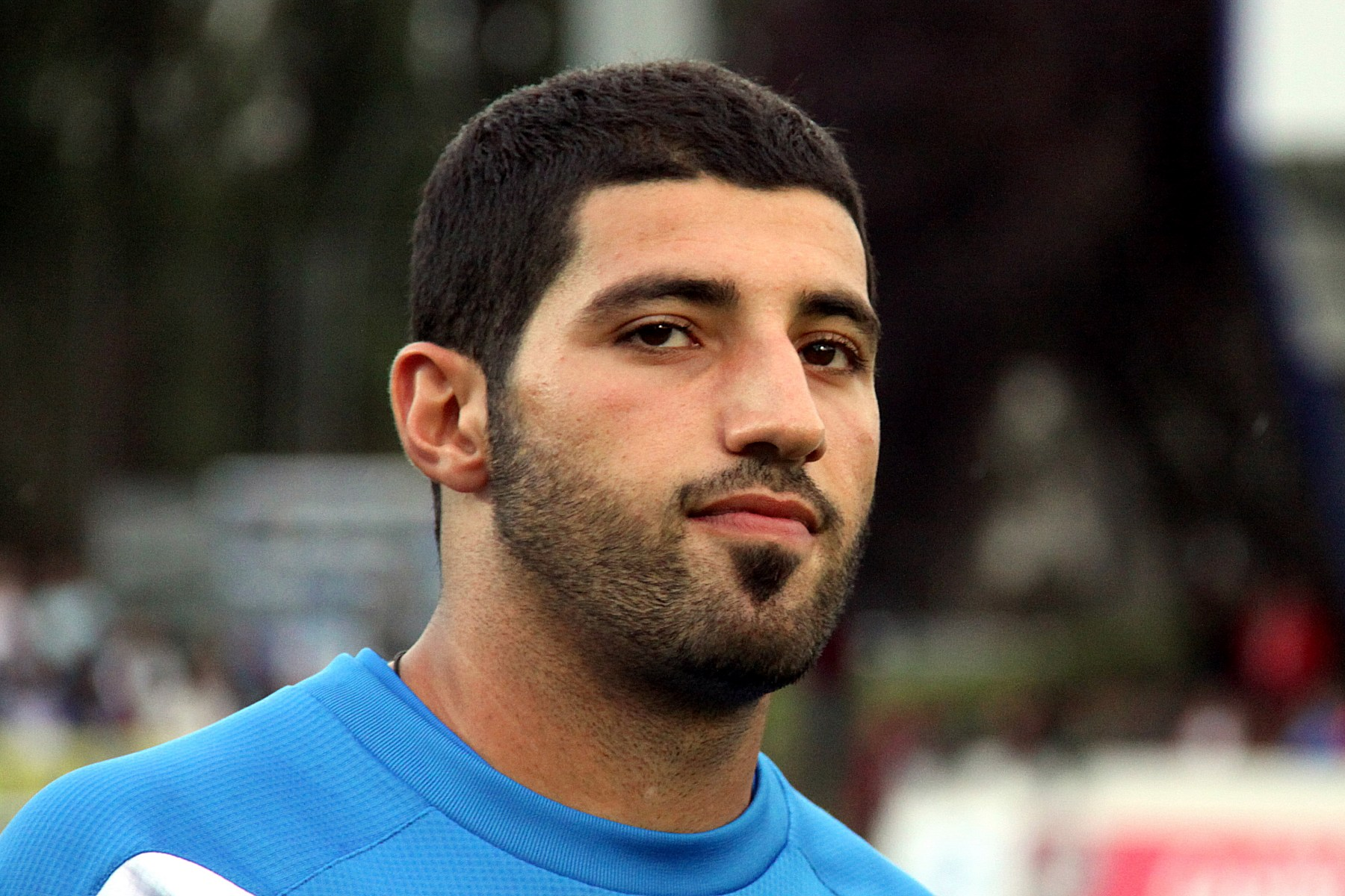 SC Wiener Neustadt (blue shirts) vs SK Rapid Wien (white shirts) 0:2 (0:0) – The foto shows Serkan Ciftci (SC Wiener Neustadt).